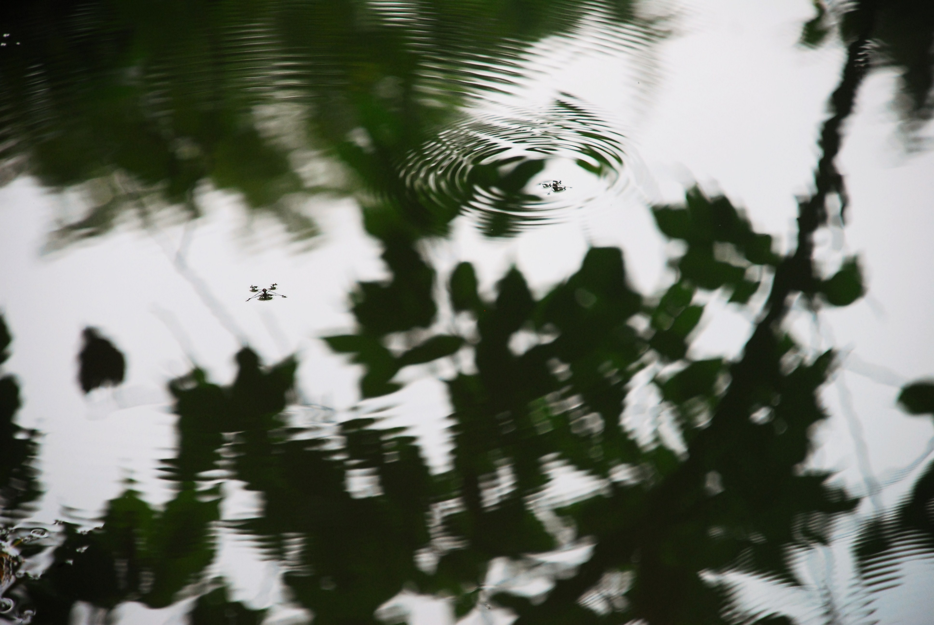 Bugs skimming the surface of the pond in the Nitobe Memorial Gardens at the University of British Columbia in Vancouver, Canada.